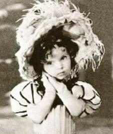 Shirley Temple in the public domain movie Glad Rags to Riches (1933).